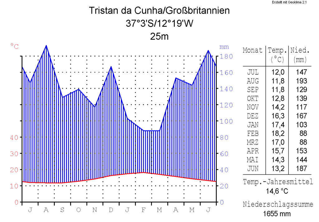 climate chart in the format by Walter and Lieth, metric, °Celsisus and millimeters, made with Geoklima 2.1